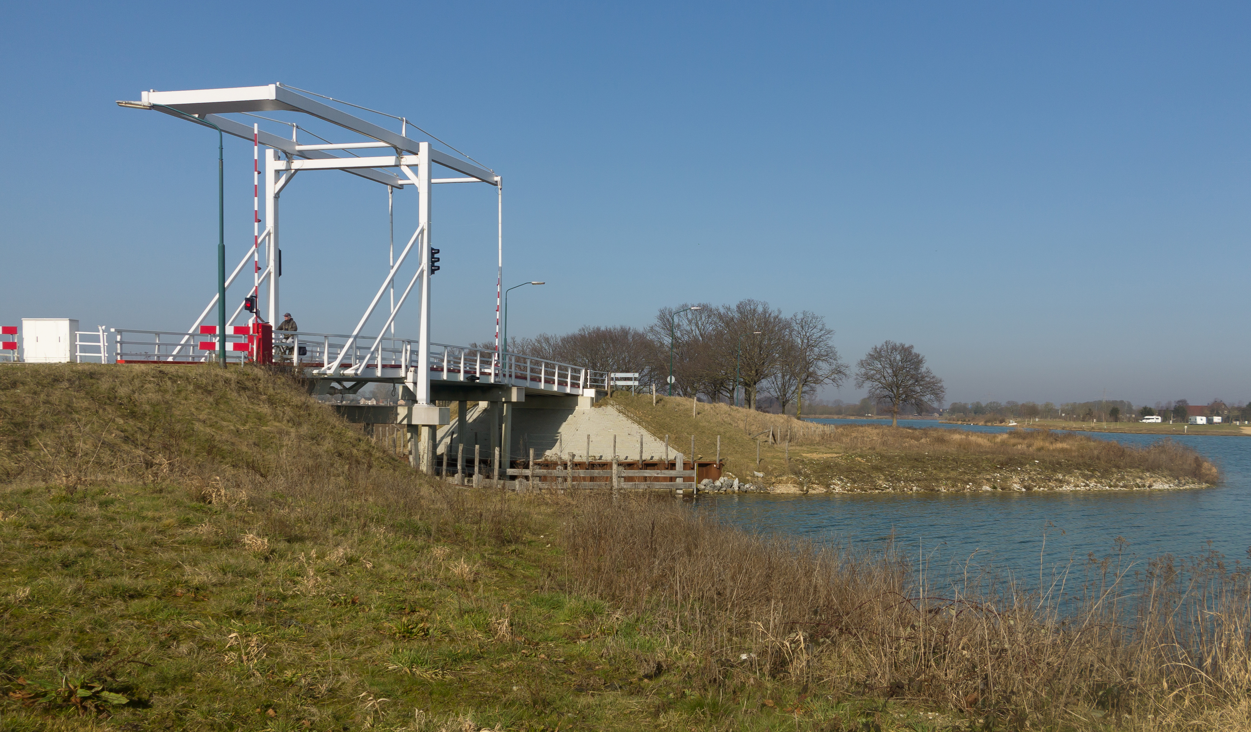 Kraaijenbergse Plassen, drawing bridge